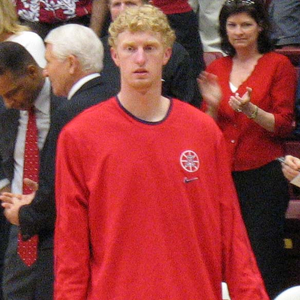 Chase Budinger while playing for Arizona in 2007.